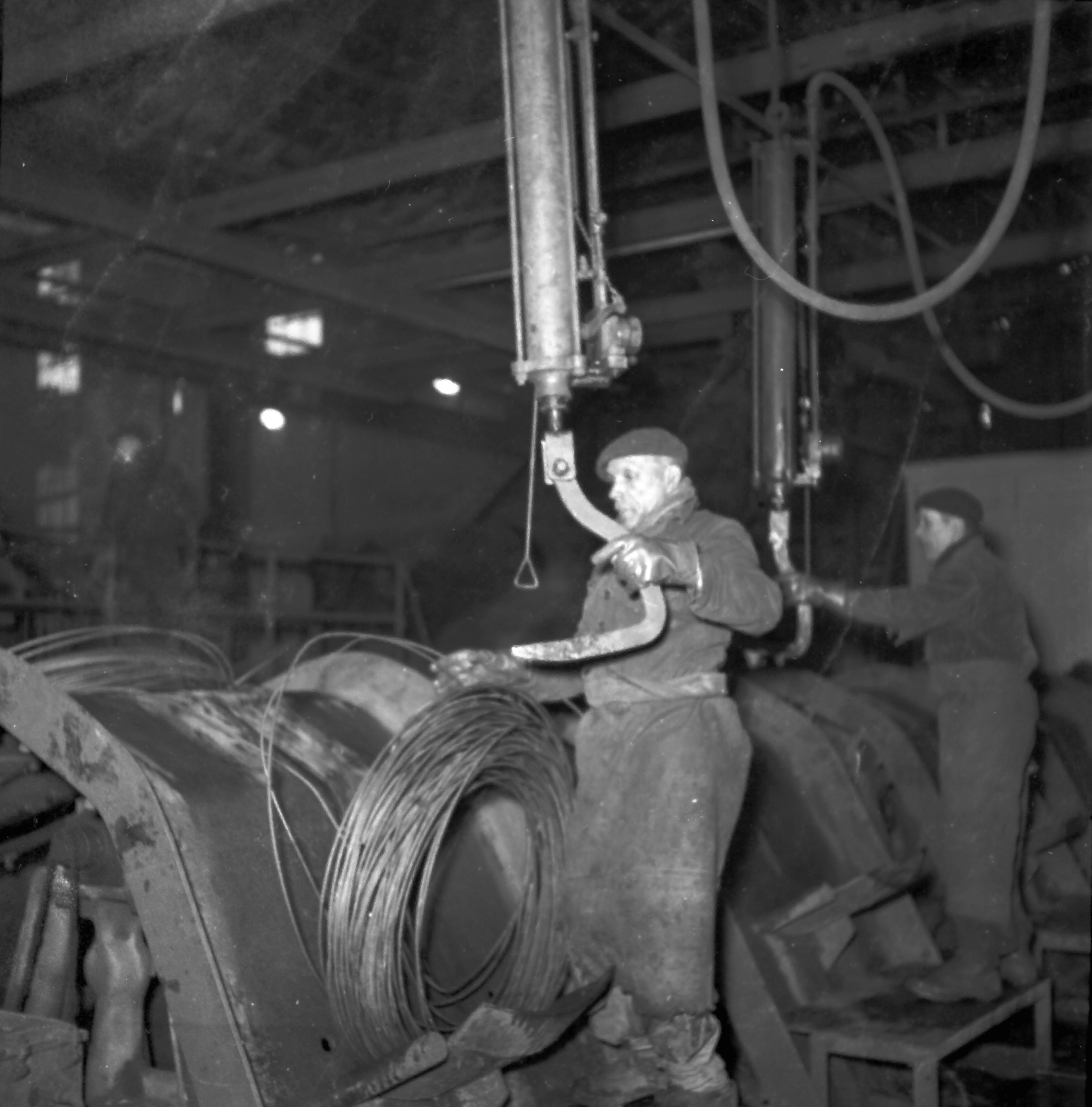 Trefileries et Laminoirs du Havre